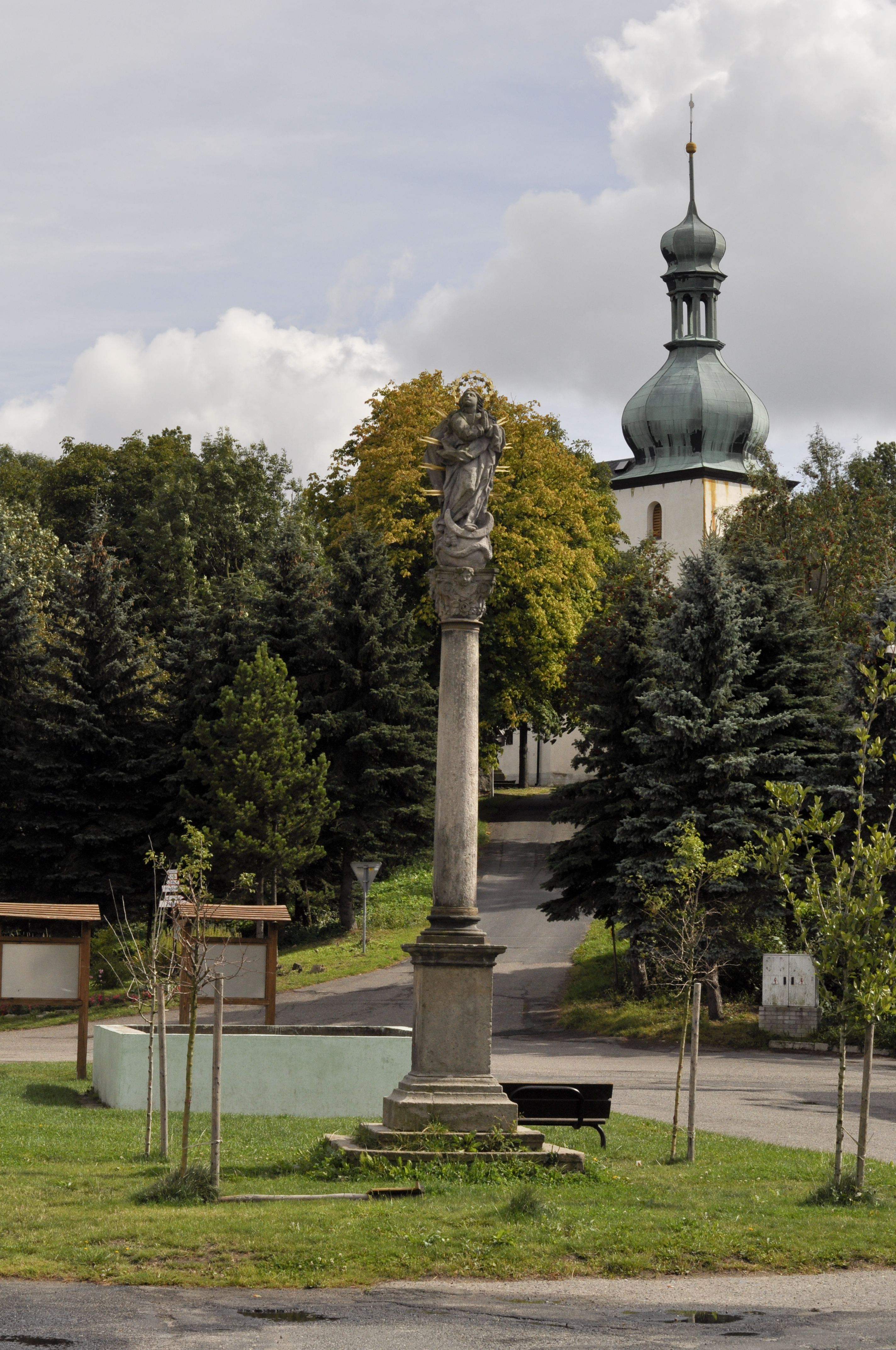 Maria columna and St. Catharine church in Hora Svaté Kateřiny